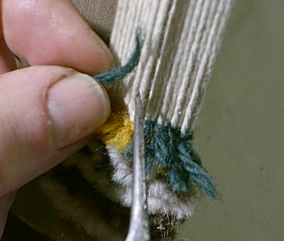 carpet knotting